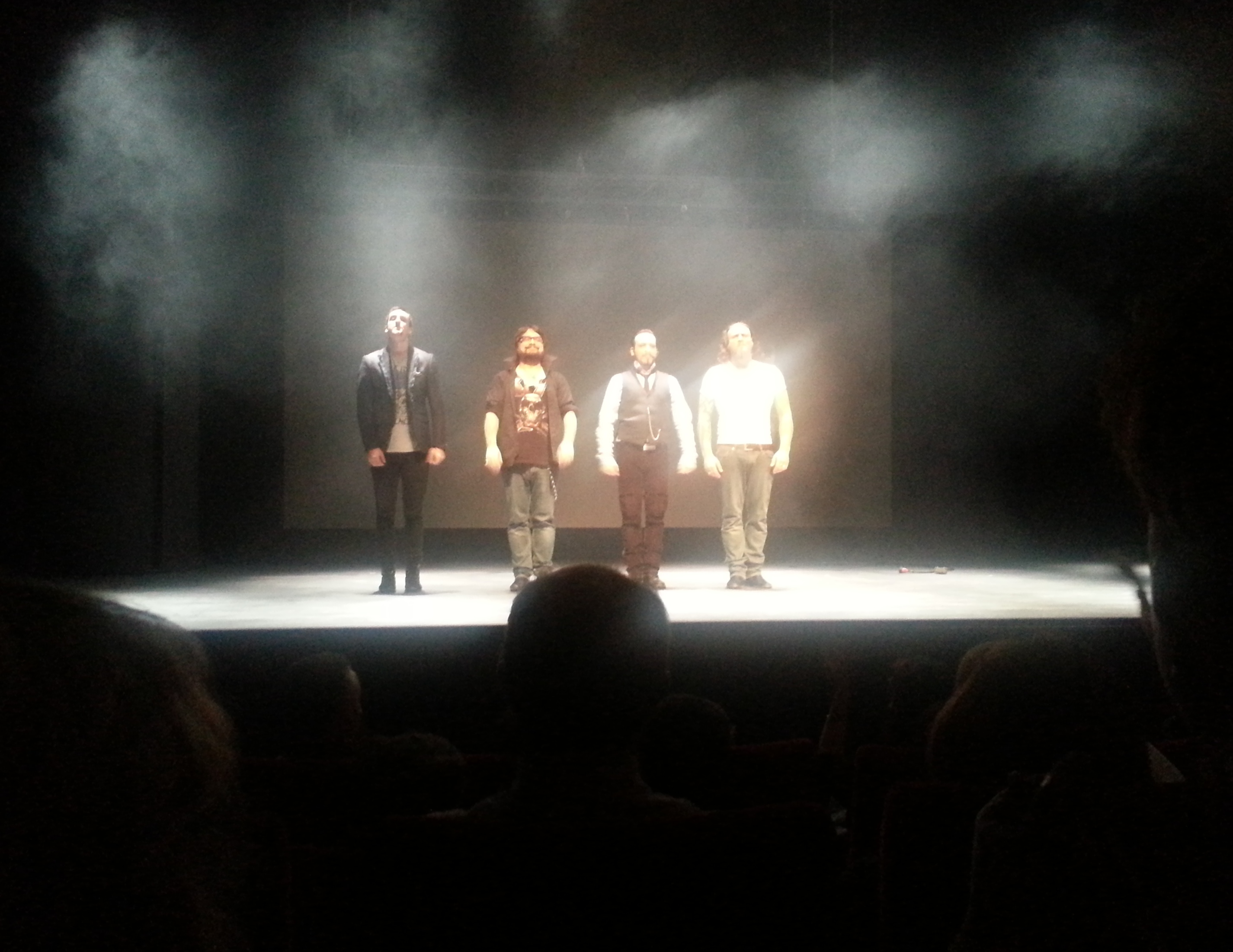 Alexandre Astier and his band greeting the public at the end of a performance of the play "L'Exoconférence" (Théâtre du Rond-Point - Saturday 18th, October 2014.).